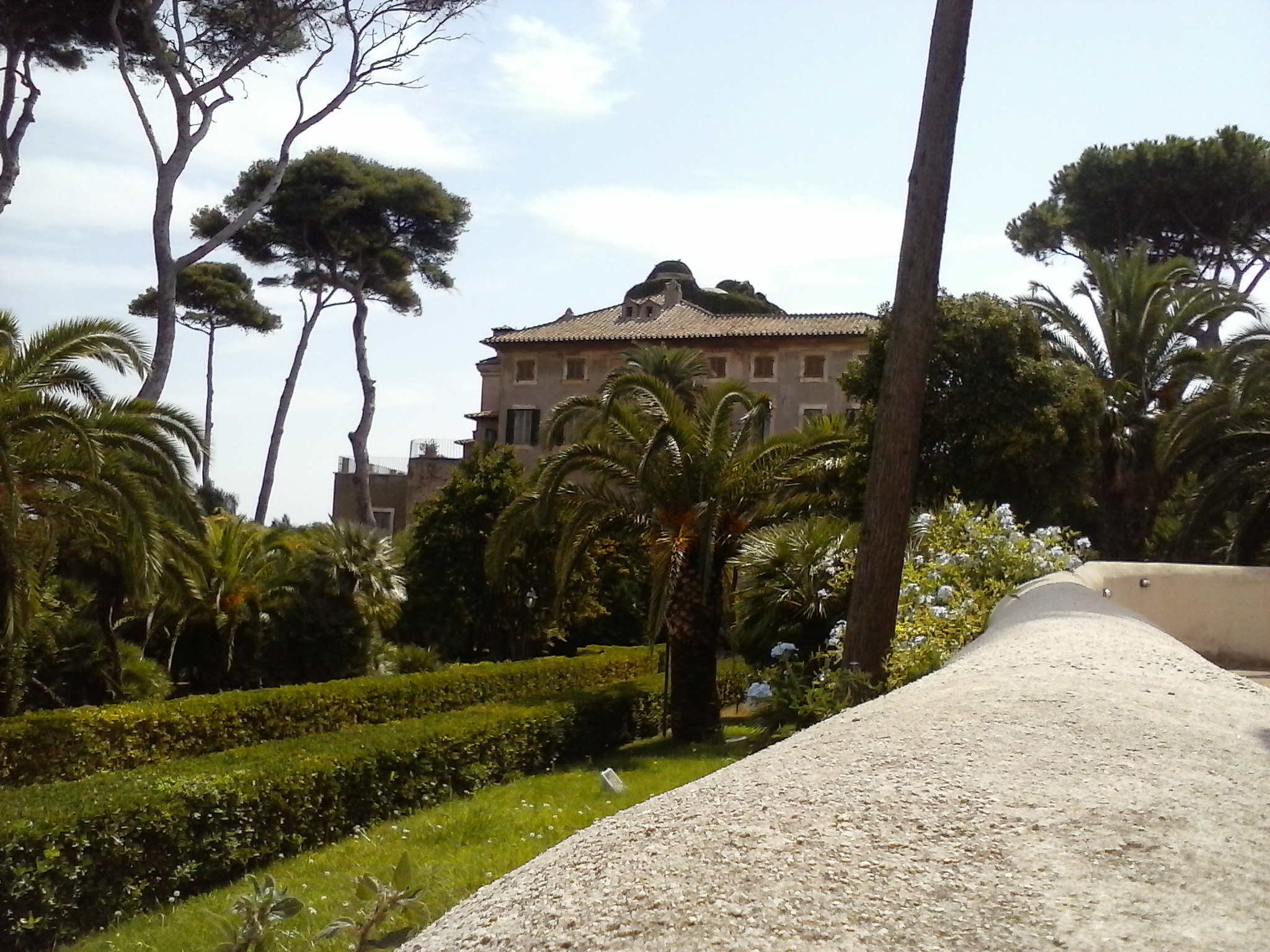 Can I use this photo? Read here for more informations.